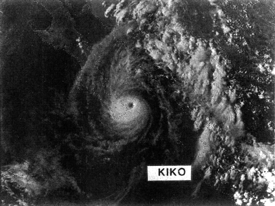 Hurricane Kiko of 1989 on August 26, 1989, off Baja California. Source: Lawrence, Miles B (May 1990). "Eastern North Pacific Hurricane Season of 1989" (PDF). Monthly Weather Review 118 (5): p. 1192. American Meteorological Society. 10.1175/1520-0493(1990)118 2.0.CO;2. ISSN 1520-0493. Retrieved on 2007-01-03.